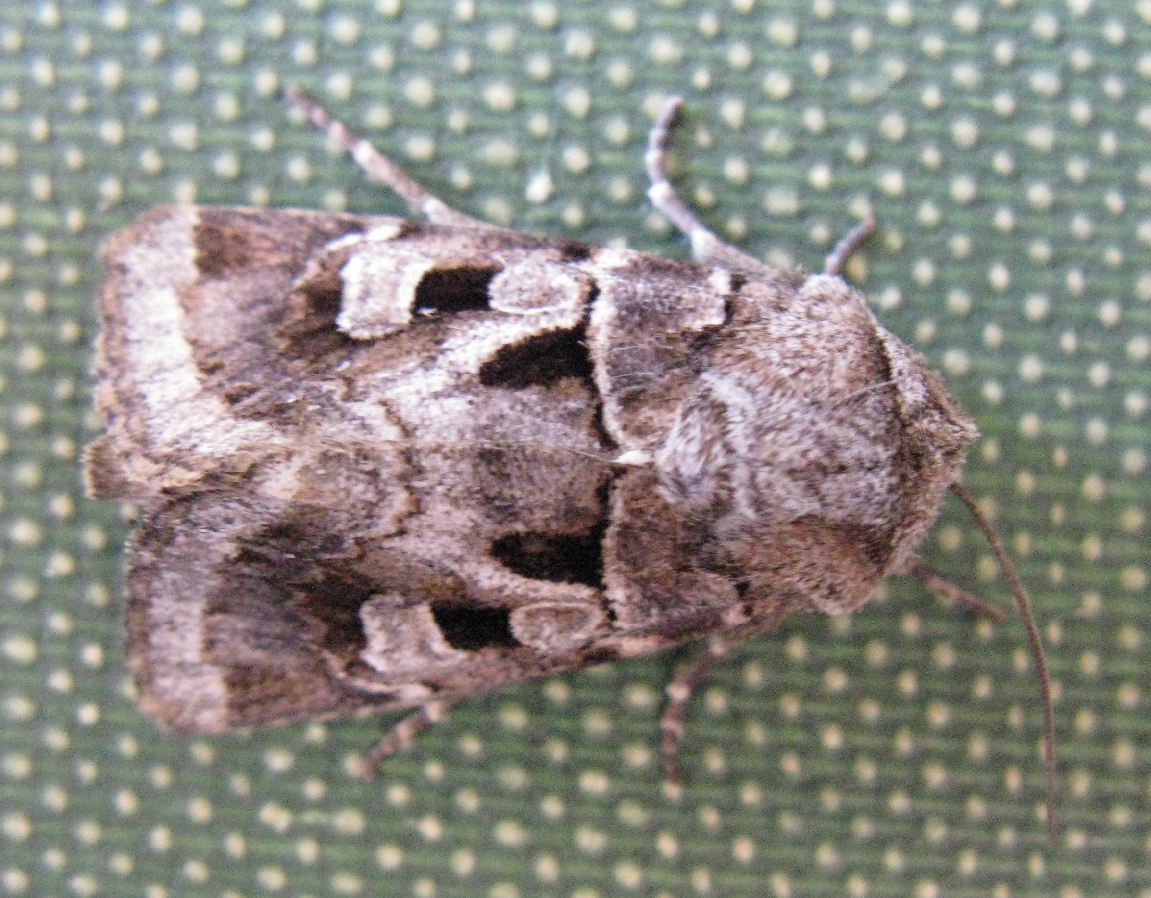 Neuranethes spodopterodes Noctuidae. Agapanthus borer. Adult female. Dorsal aspect